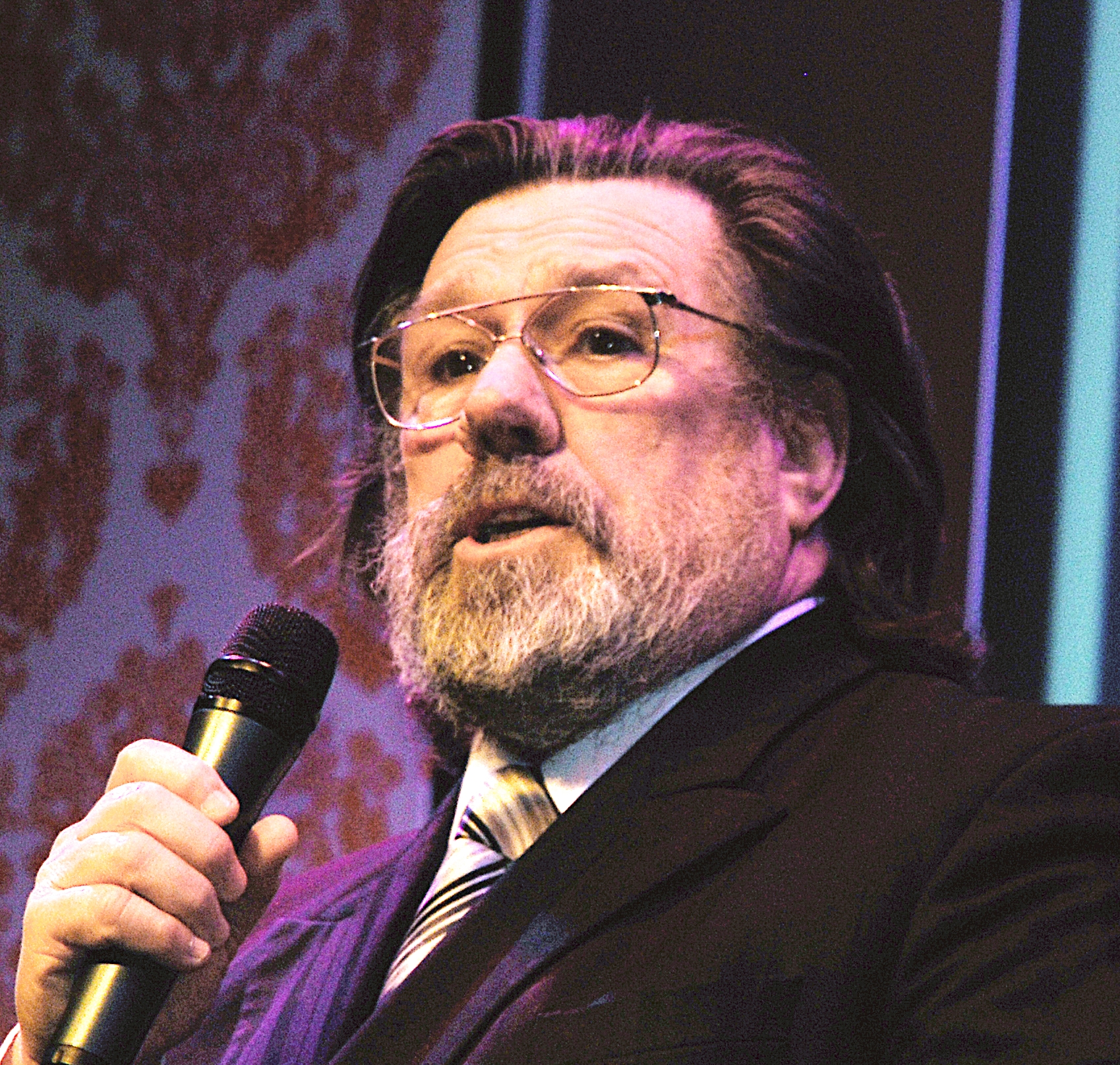 Ricky Tomlinson at the Floral Pavilion in New Brighton, Wallasey. He was the guest speaker at Wirral Partnership Homes (WPH's) Annual Staff Conference on 3 February 2011